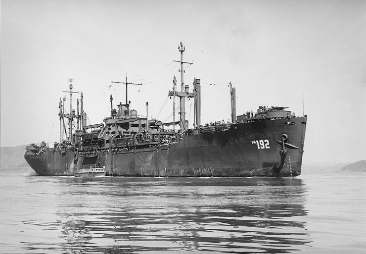 USS Rutland in San Francisco Bay, California. She is returning troops from the Western Pacific to the United States as part of Operation "Magic Carpet".